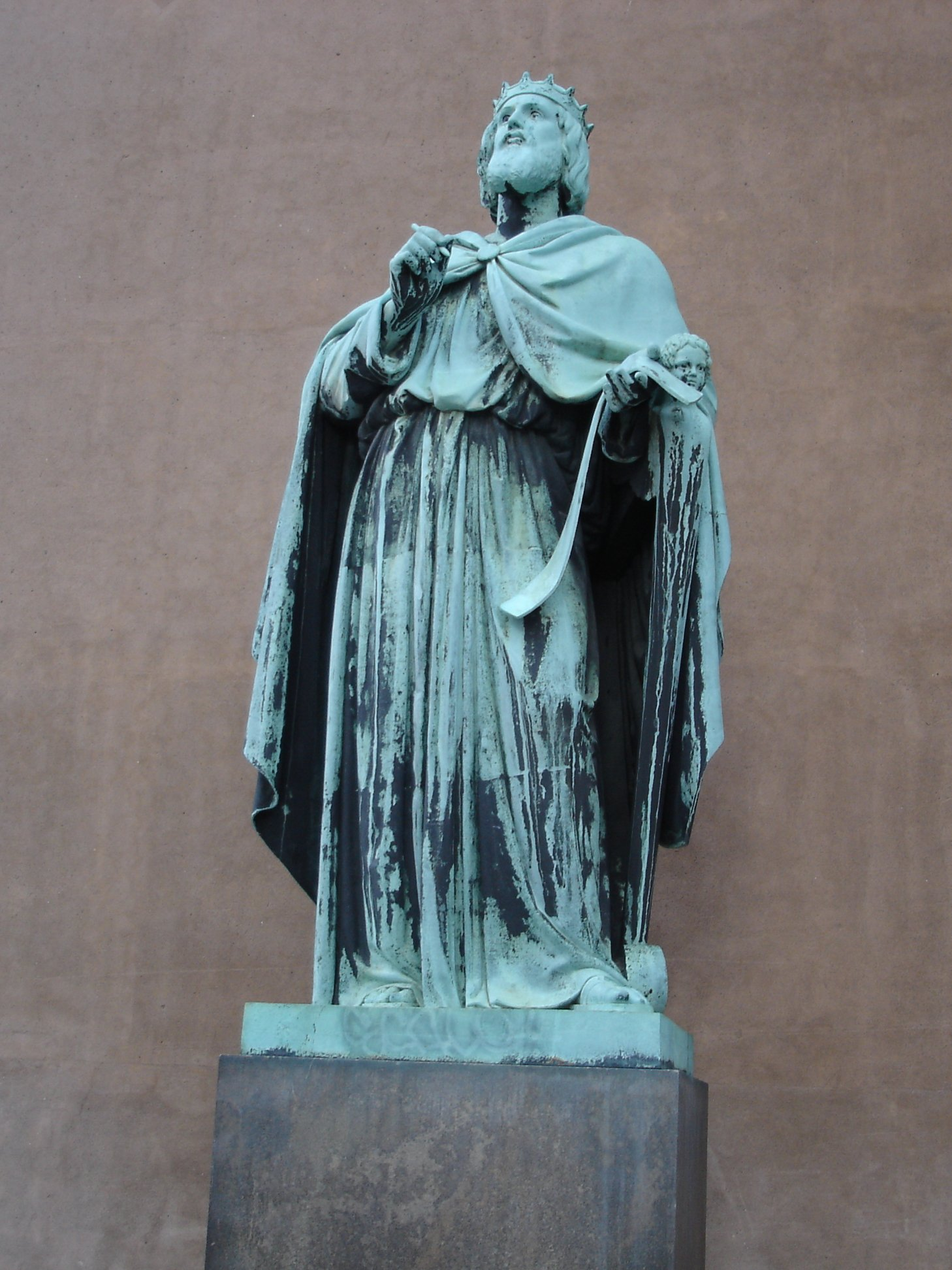 Statue of Israel King David in Copenhagen, Denmark. Sculptor: F. A. Jerichau (1860)